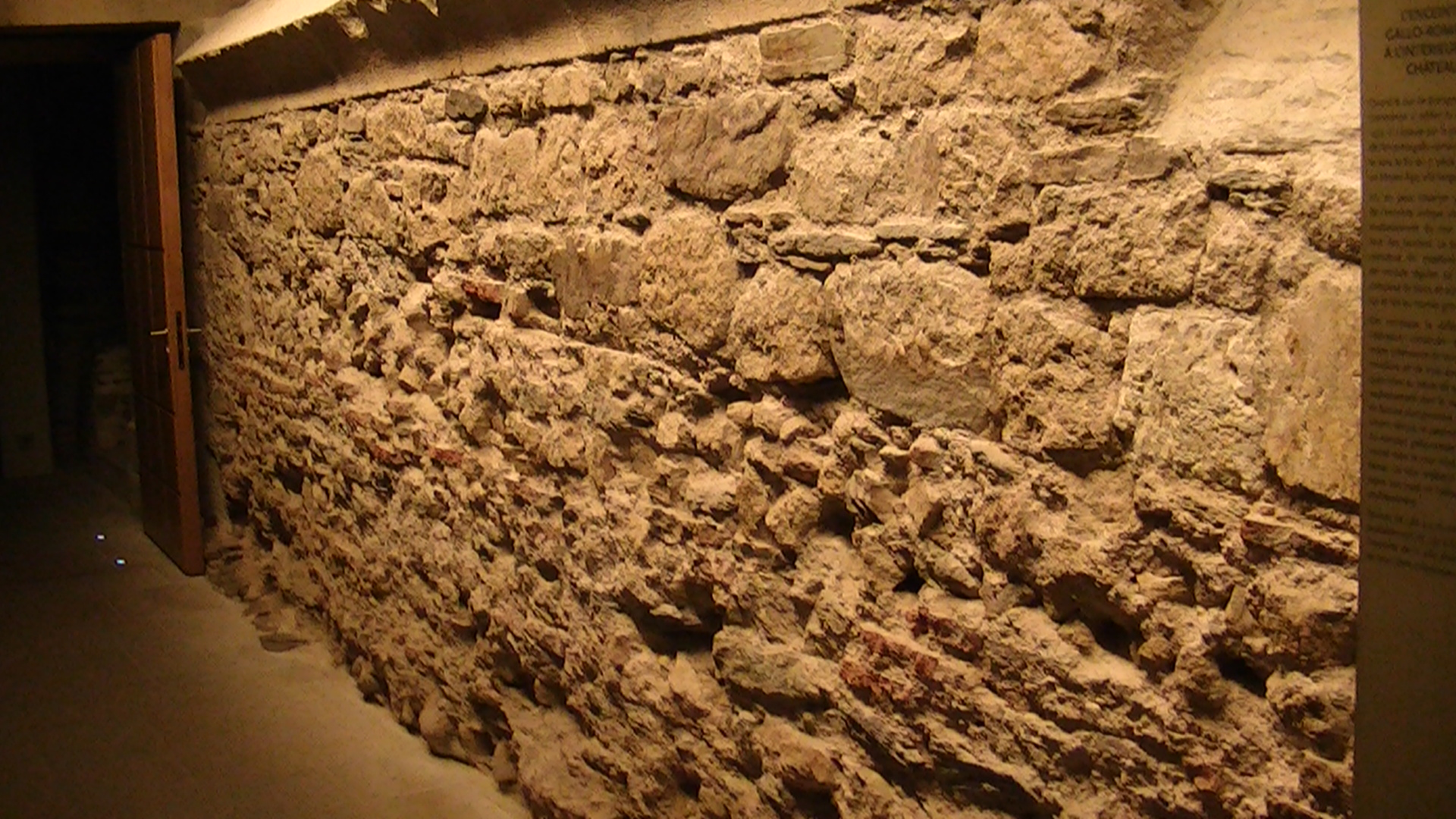 Remnants of the Roman wall in the Musée du château des ducs de Bretagne, Nantes